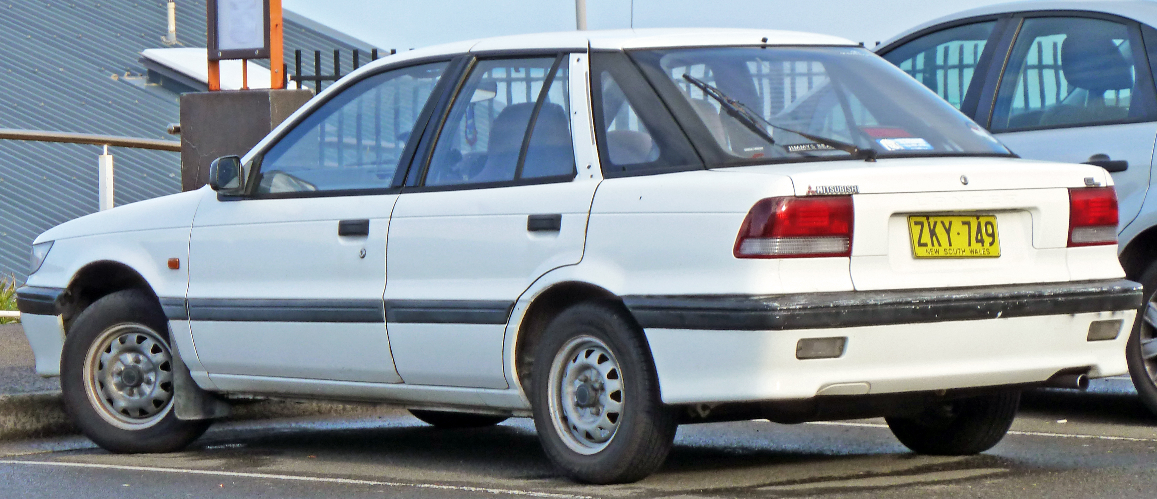 1992–1996 Mitsubishi Lancer (CC) GL 5-door hatchback. Photographed in Cronulla, New South Wales, Australia.